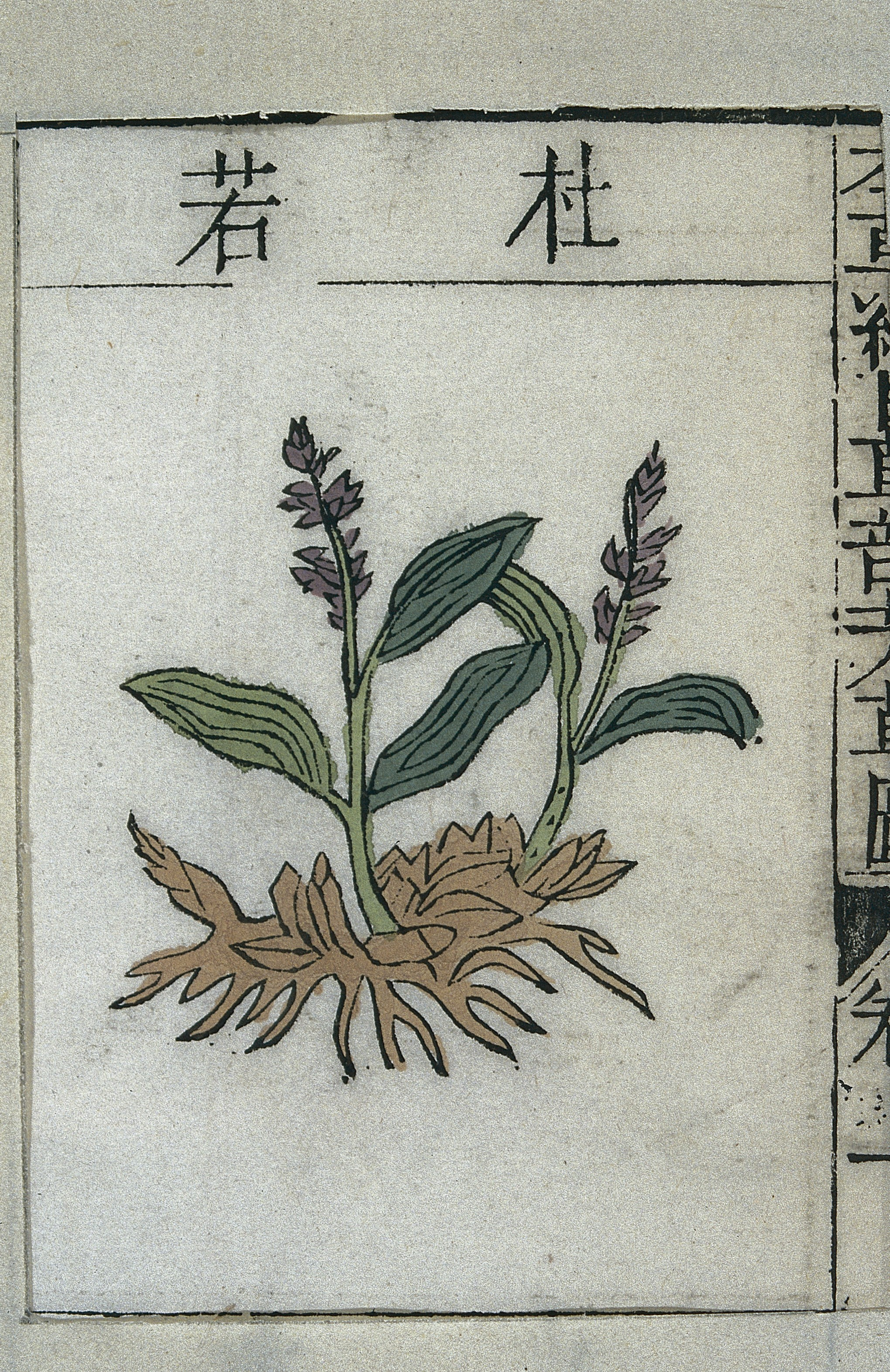 Theduruoplant (Pollia japonica), woodblock print coloured by hand. Shunzhi reign period of the Qing dynasty. The root and stem ofduruocan be made into a drug, considered effective for replenishing kidney Qi and treating conditions such as back pain and injuries from knocks and falls. In Chapter 14 ofBencao gangmu(Systematic Materia Medica), Li Shizhen writes: 'Duruobelongs to Shen Nong's superior (shang) category. It cures various symptoms of footshaoyinand foottaiyang.' In this quotation, 'Shen Nong' refers toShen Nong bencao jing(Shen Nong's Pharmacopoeia), a compilation variously dated between the Eastern Han (25-220 CE) and Warring States (475-221 BCE) periods, and possibly containing still earlier material. It lists 365 drugs, divided into three classes: superior, standard and inferior (shang,zhong,xia). 'Footshaoyin' indicates the kidney channel of footshaoyinand 'foottaiyang' the bladder channel of foottaiyang. Wellcome Images Keywords: Drugs, Chinese Herbal; Chinese Medicine; Ming period (1368-1644); Plants, Medicinal; Shen Nong; Medicine, Chinese Traditional; Medicinal Plant; Materia Medica